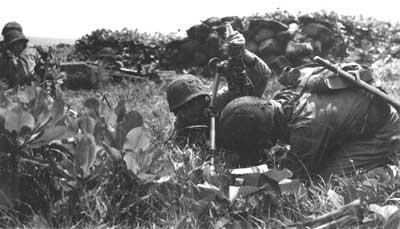 A US Marine Raider 60mm mortar crew goes into action on New Georgia, most likely during the Dragon's Peninsula campaign around Enogai or Bairoko in July, 1943